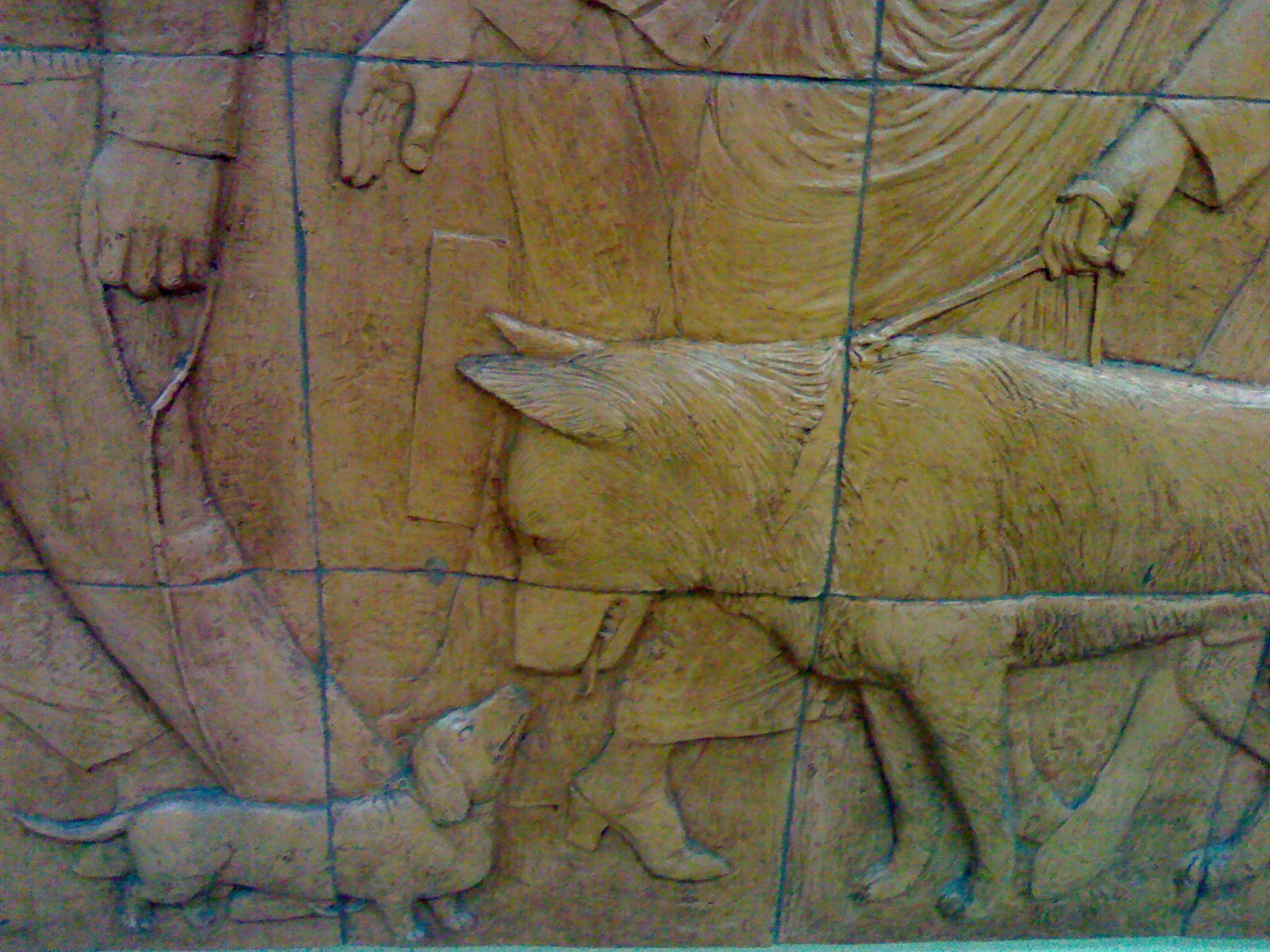 Detail of William McElcheran's "Cross Section" mural at Dundas subway station in Toronto, Canada.